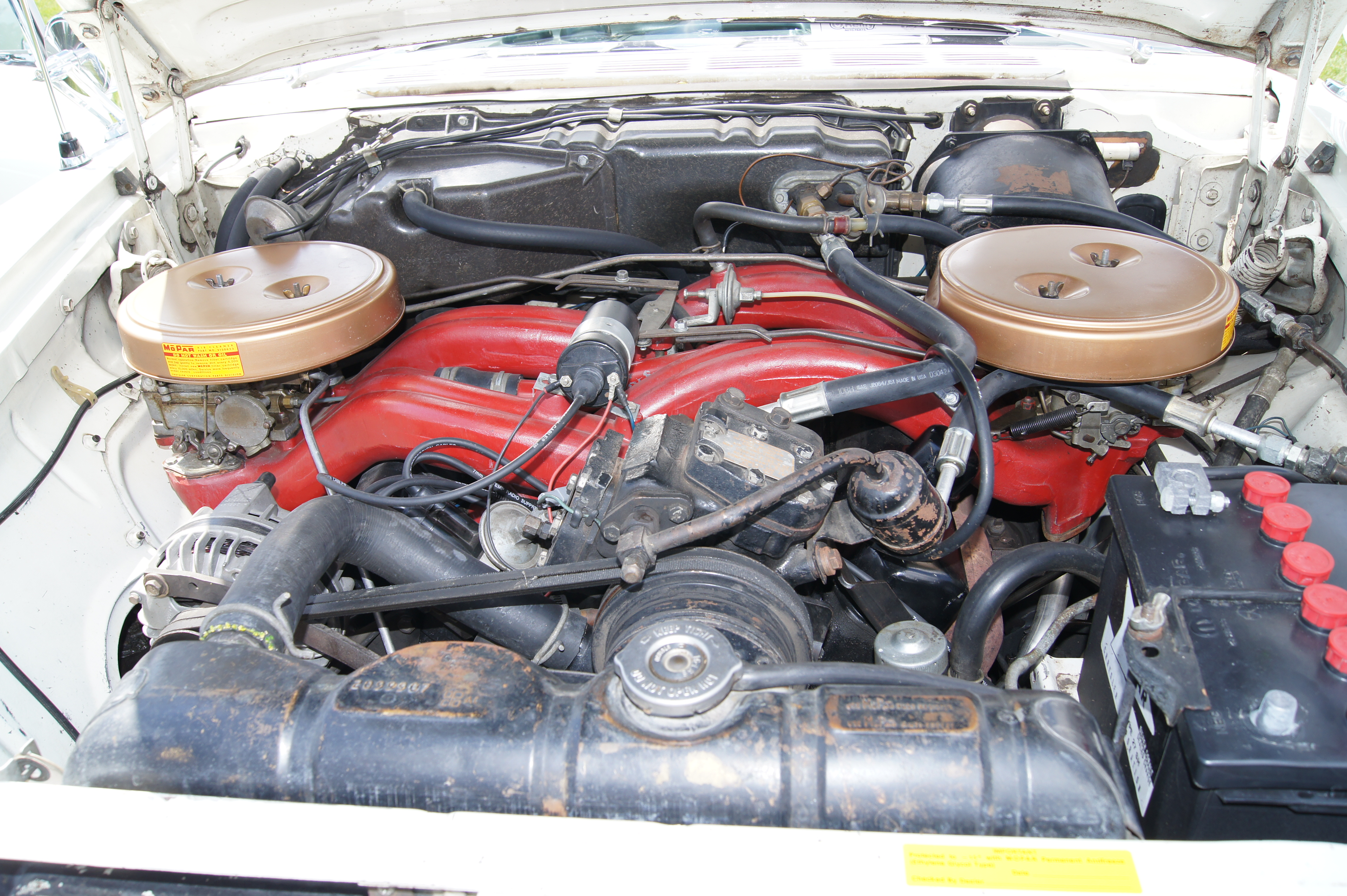 28th Annual Midwest Mopars in the Park June 2, 2012